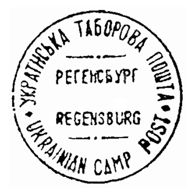 Regensburg Displaced Persons Camp circular cancel.